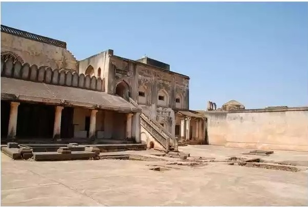 Rangeen Mahal Front View